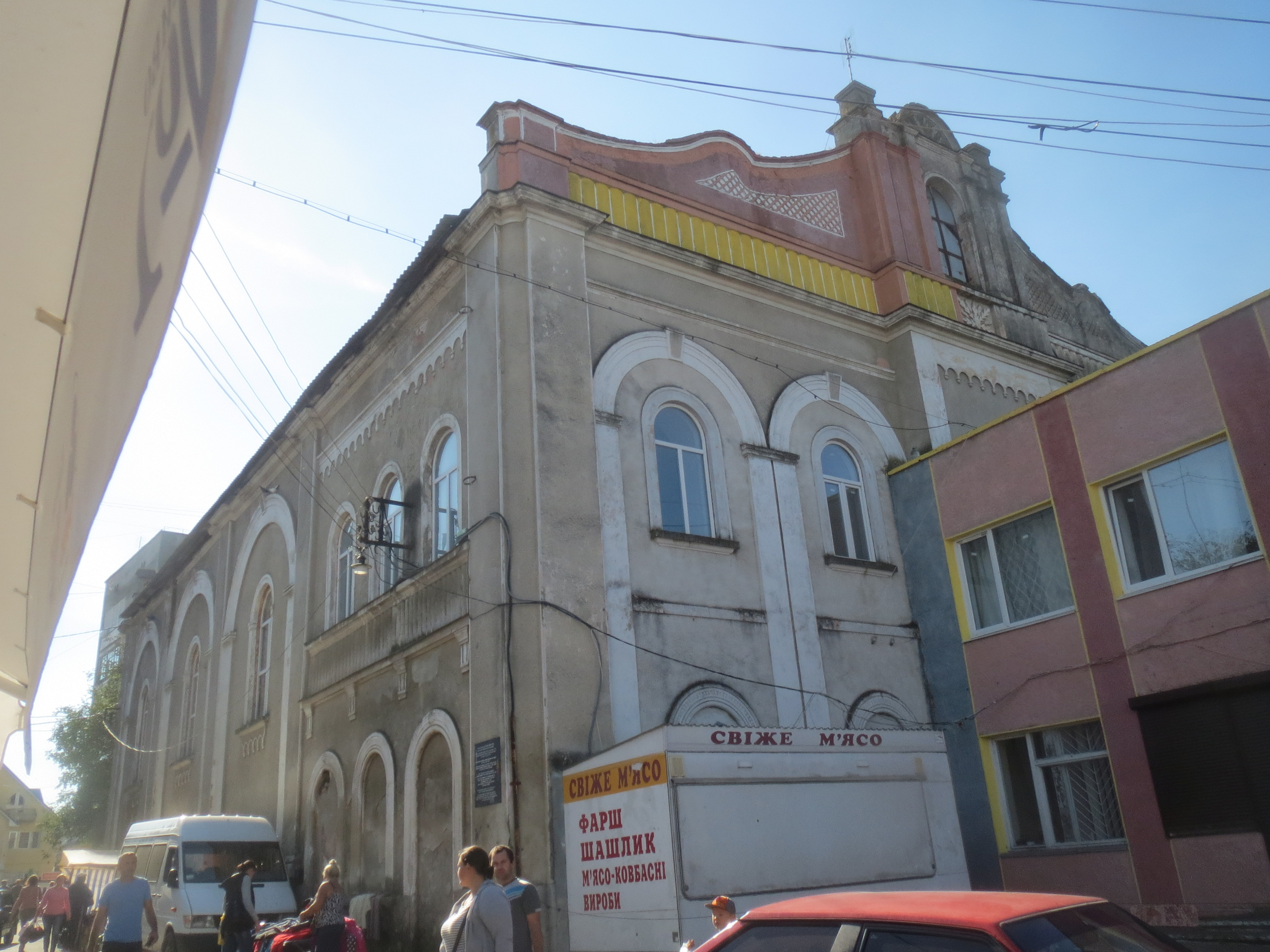 Horodenka Synagogue 1 (Sept. 2018)